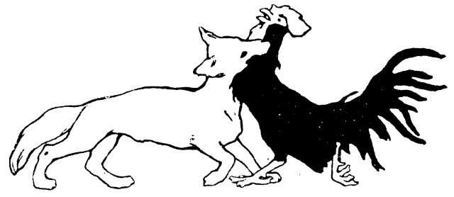 Illustration by Otto Ubbelohde to the fairy tale The Thief and His Master